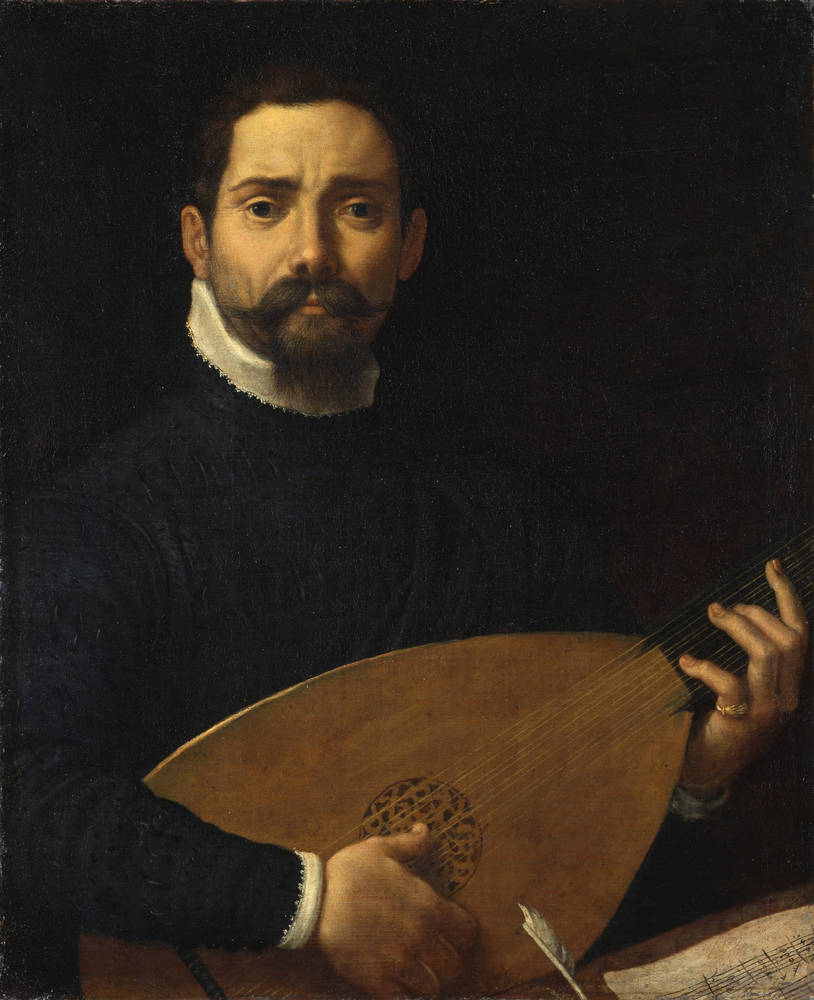 The sitter has been identified as Giulio Mascheroni of Bologna (see the References field). Formerly believed to be the Italian commedia dell'arte actor Giovanni Gabrielli.